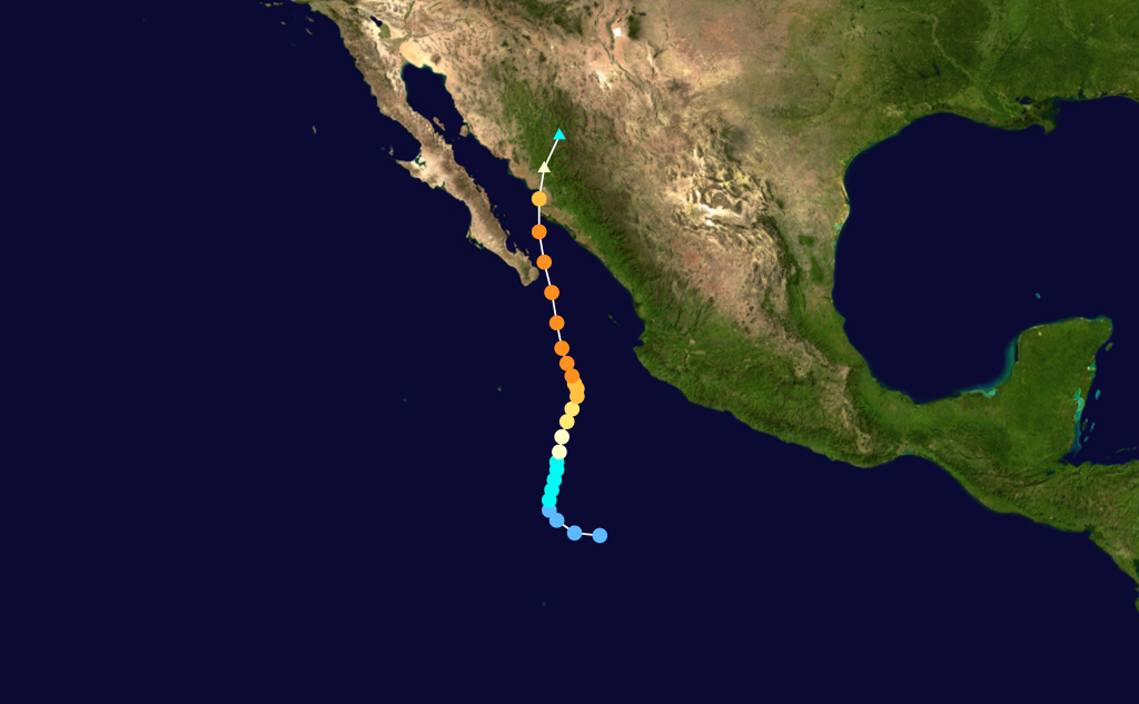 Hurricane Liza (1976) track. Uses the color scheme from the Saffir-Simpson Hurricane Scale.